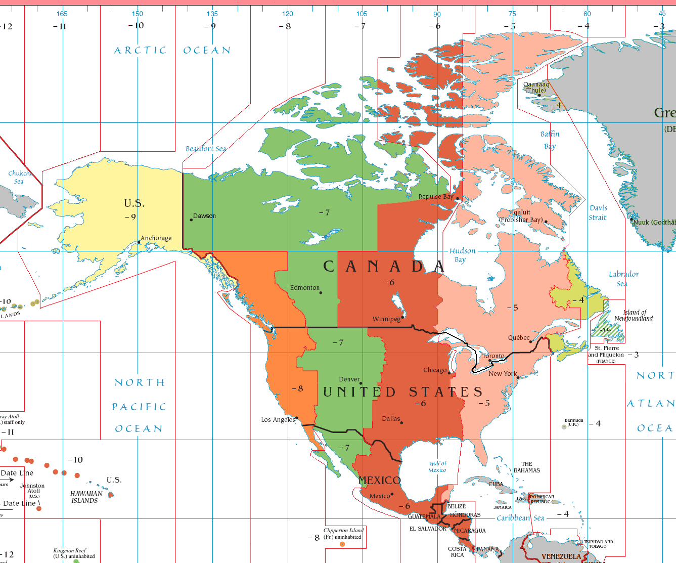 English (en): Map showing the Standard Time Zones of the North America UTC+12 UTC-9 UTC-8 UTC-7 UTC-6 UTC-5 UTC-4 Outside of North America